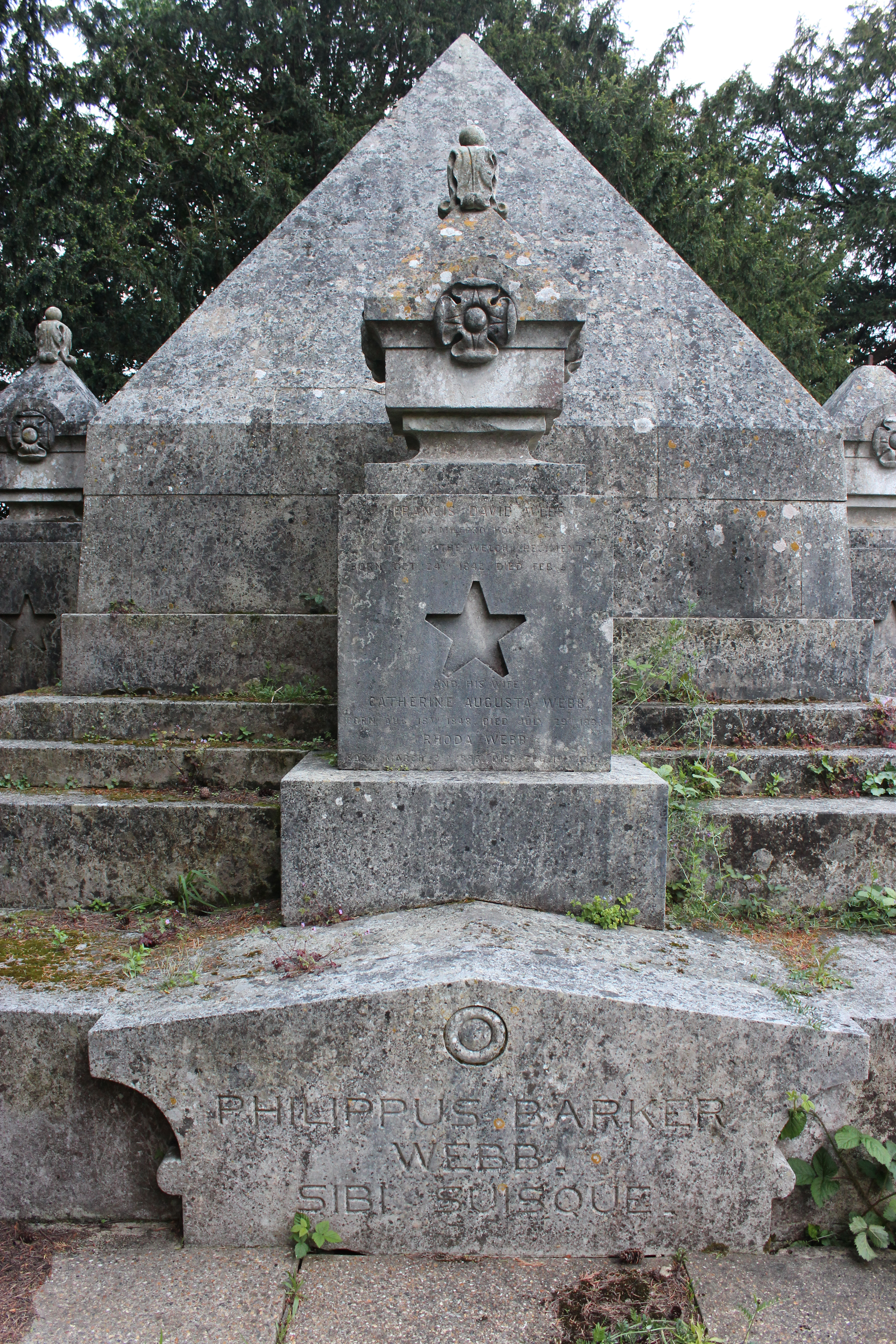 Webb Mausoleum, Milford, Surrey